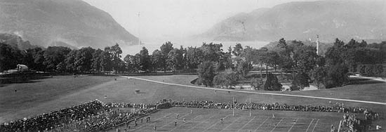 West Point's Parade Field, the Plain, circa 1900